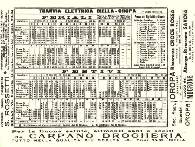 Biella-Oropa tramway, 1939 timetable